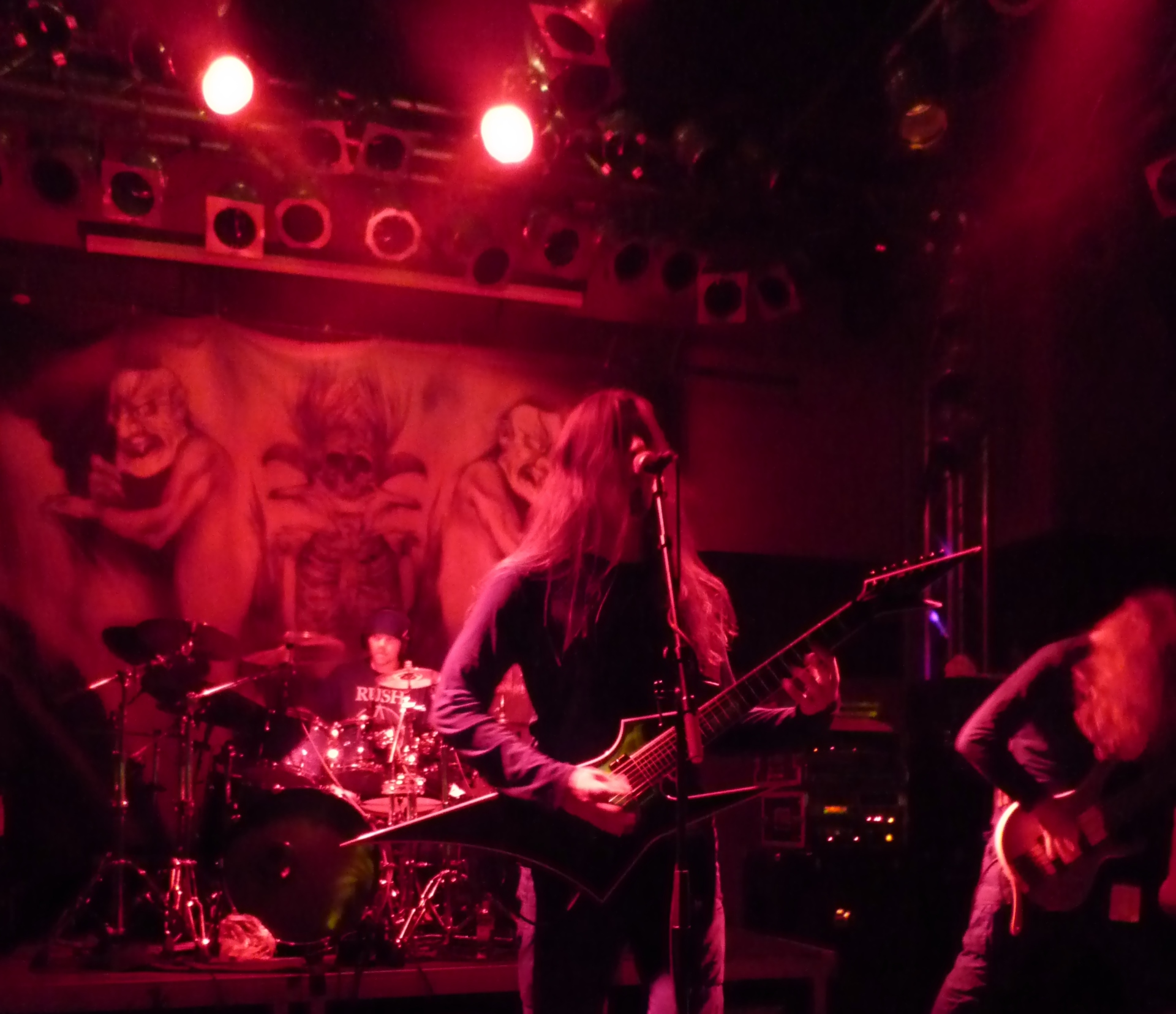 Obscura playing a show in Essen's Turock club.